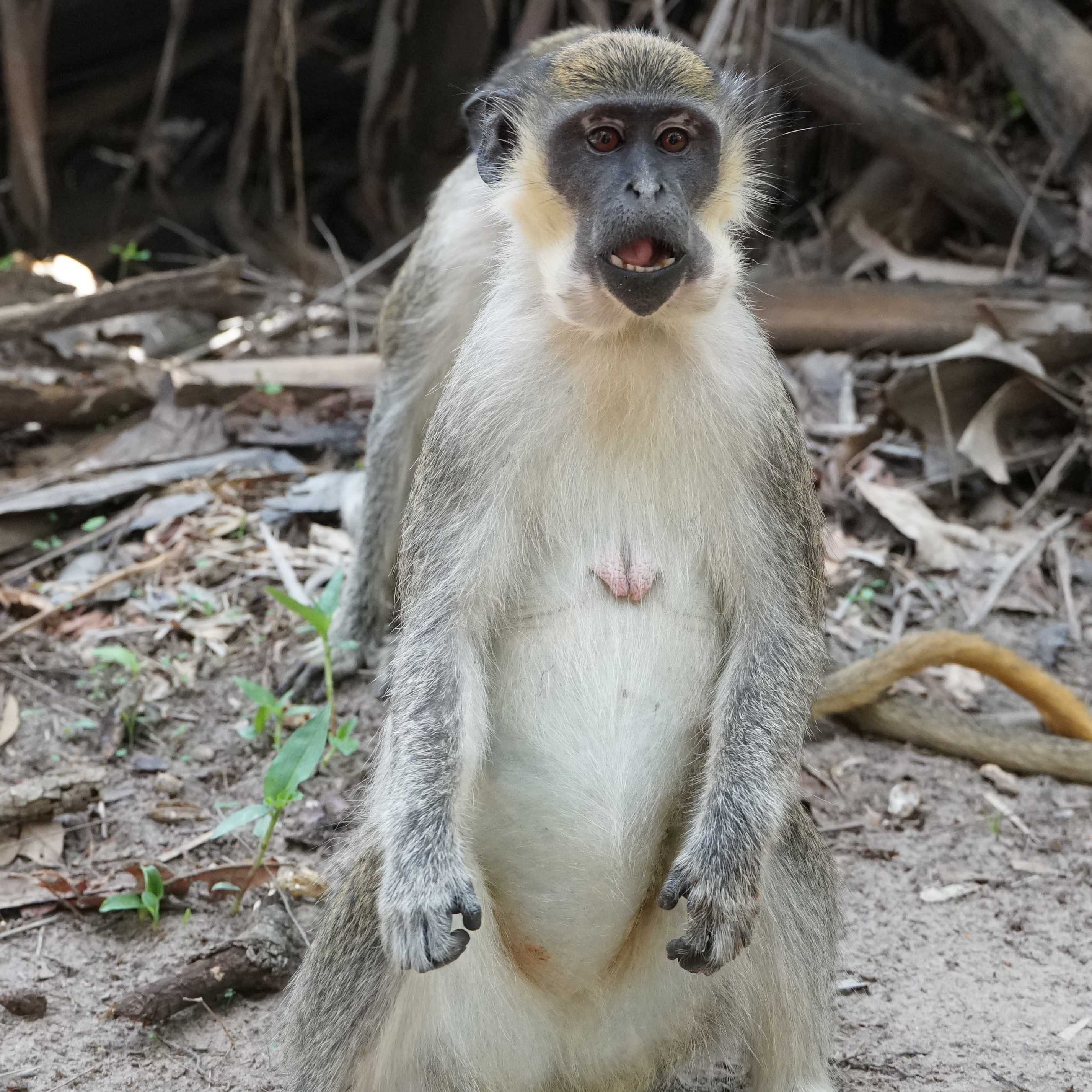 Green monkey (Chlorocebus sabaeus)